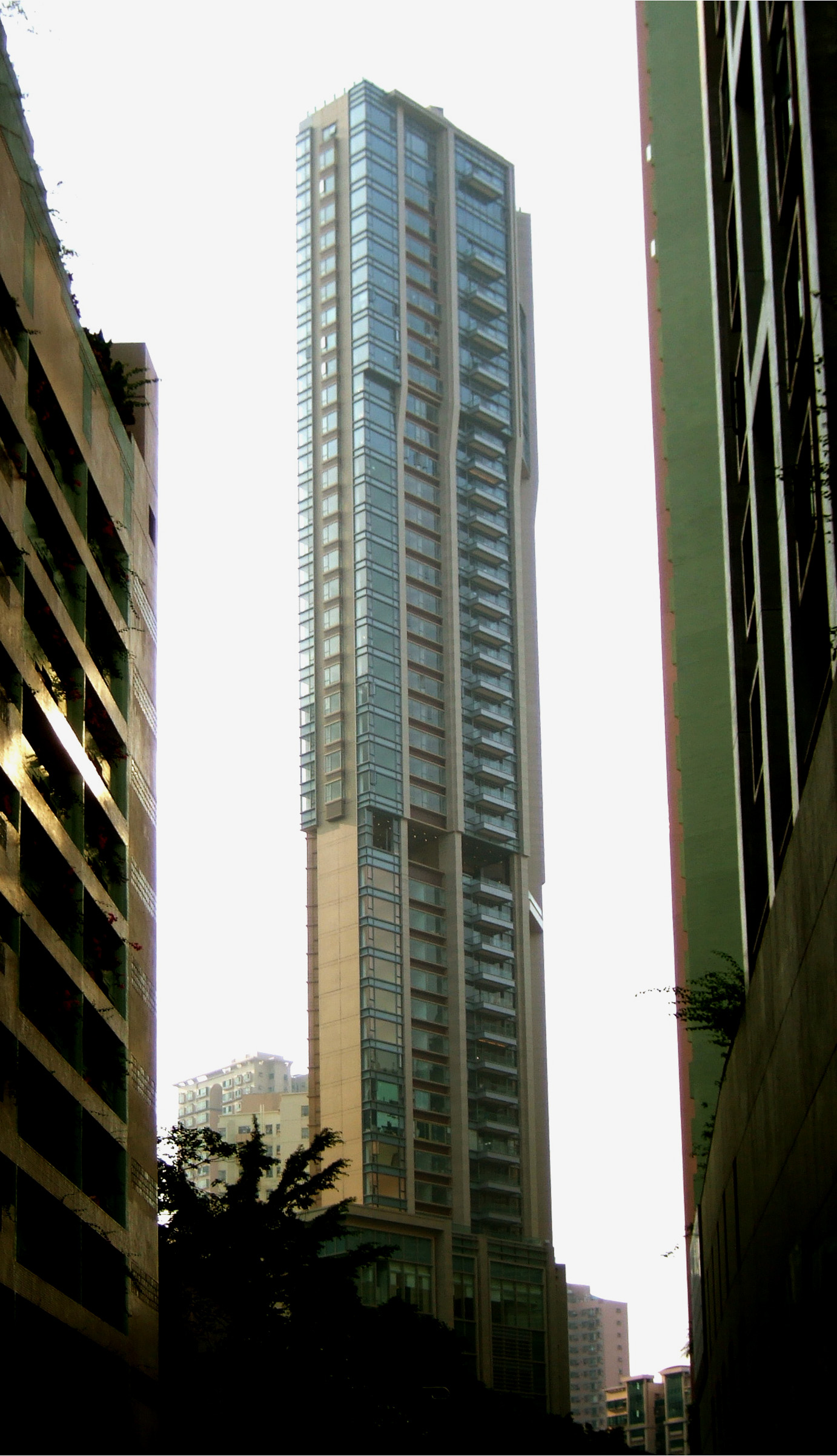 view of 39 Conduit road from in front of No.34